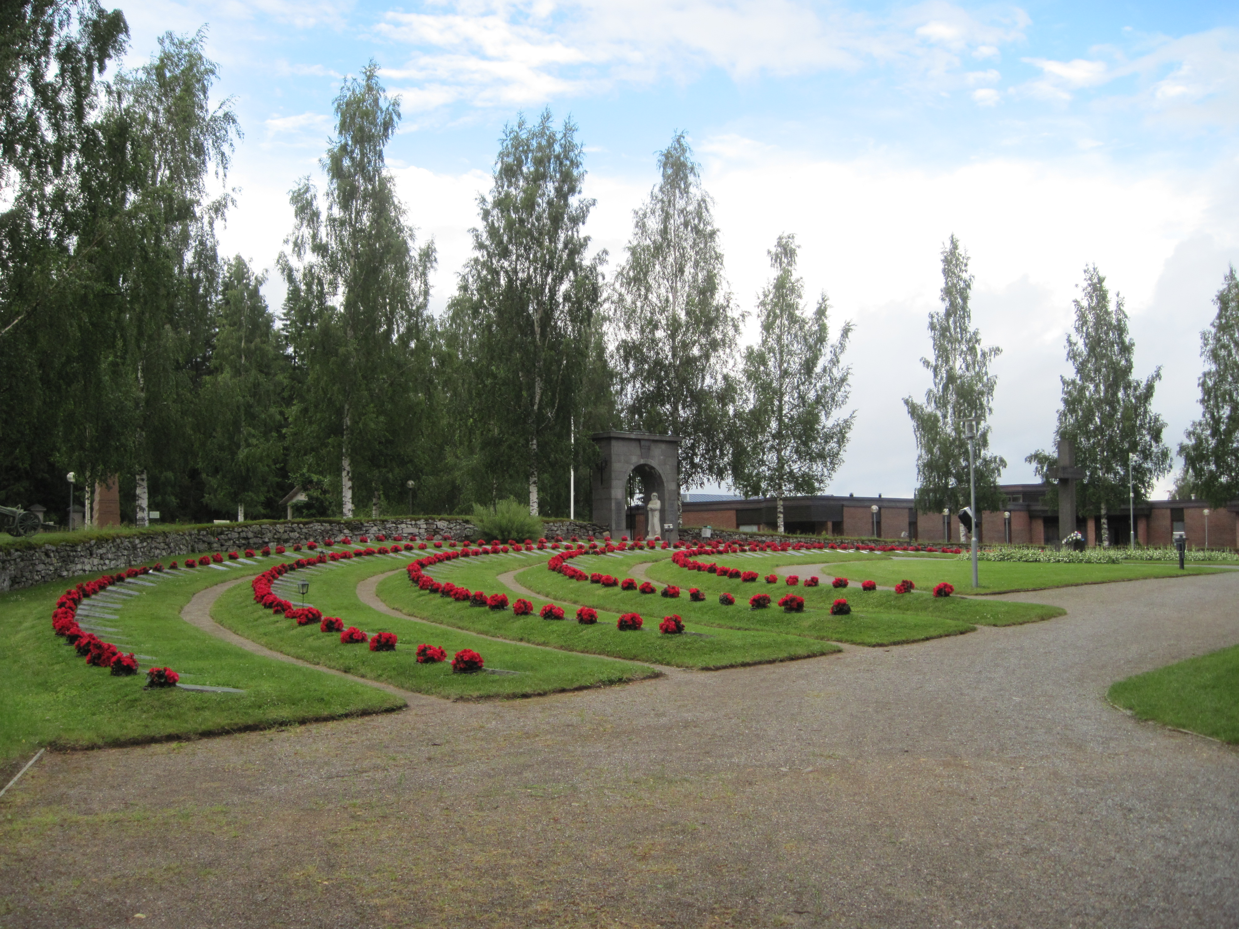 Military cemetary at church in Juva, Finland